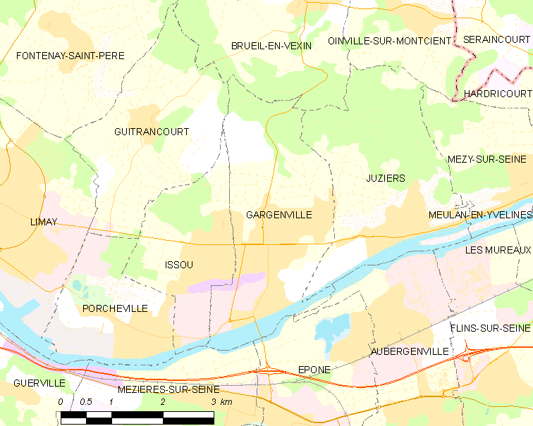 Map of French municipality Gargenville